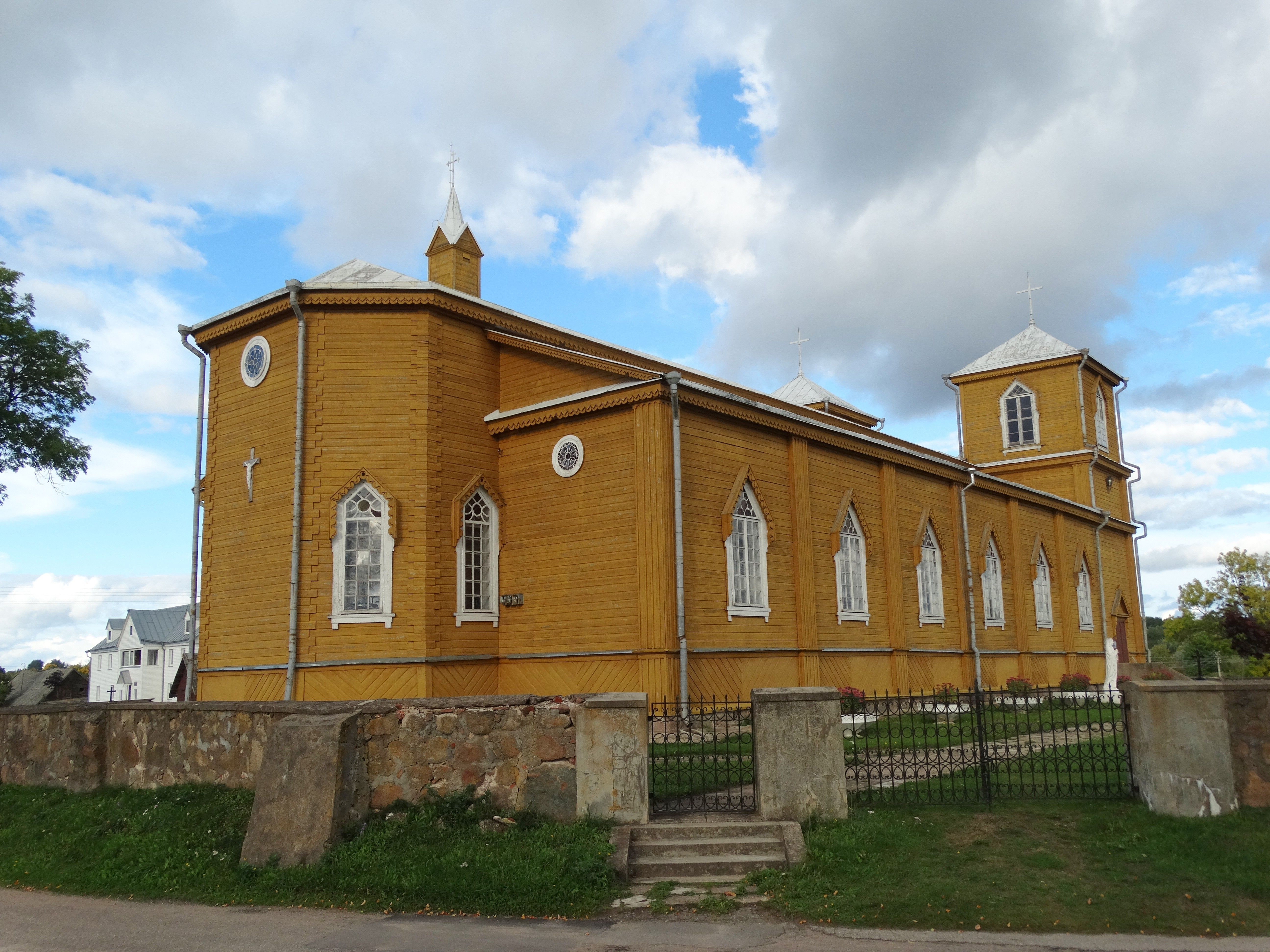 Catholic church, Naujasis Daugėliškis, Ignalina district, Lithuania